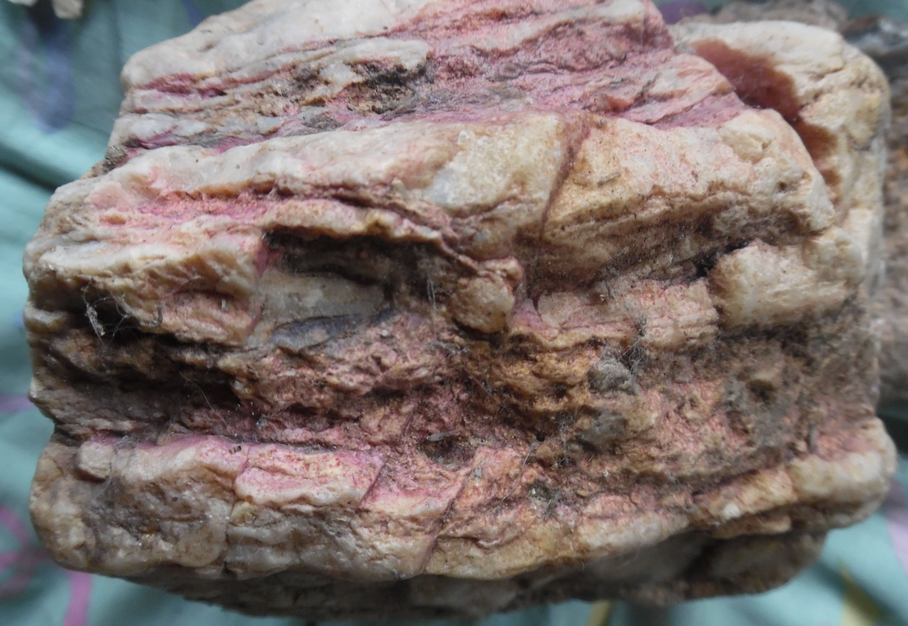 Heavily recrystallized (mylonitized ?) and silicified dolomitic Hettangian along the boundary fault of the Massif Central near Milhac-de-Nontron, Dordogne, France.